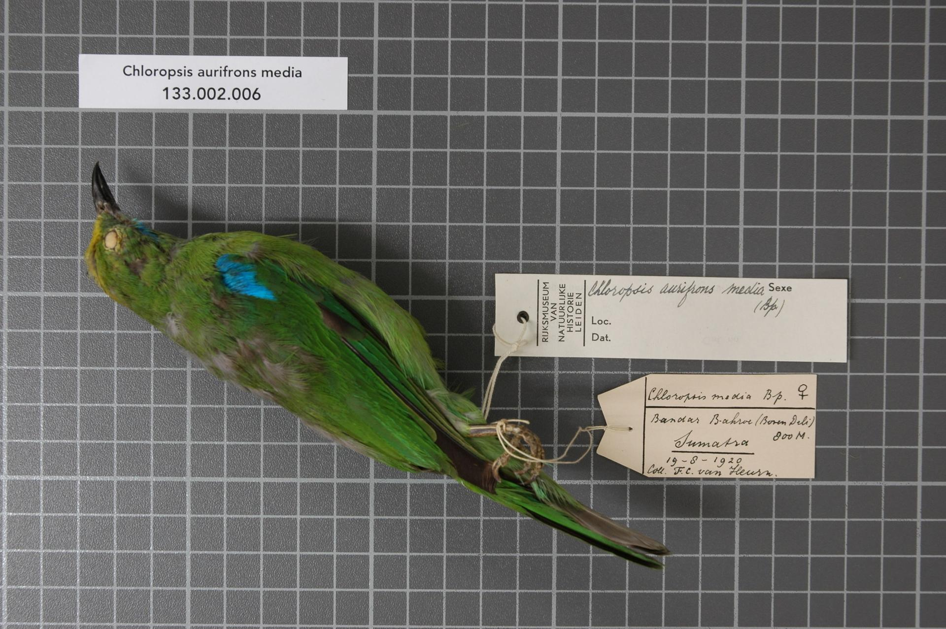 Chloropsis aurifrons media (Bonaparte, 1850)